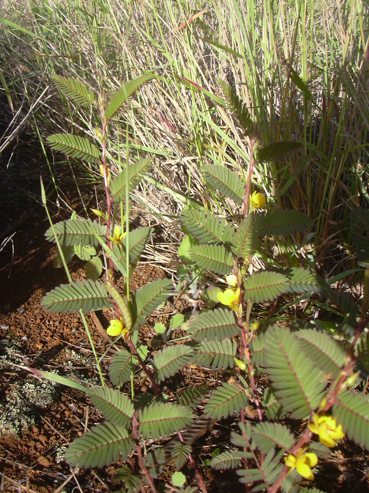 Chamaecrista nictitans (habit). Location: Kahoolawe, Lua Makika